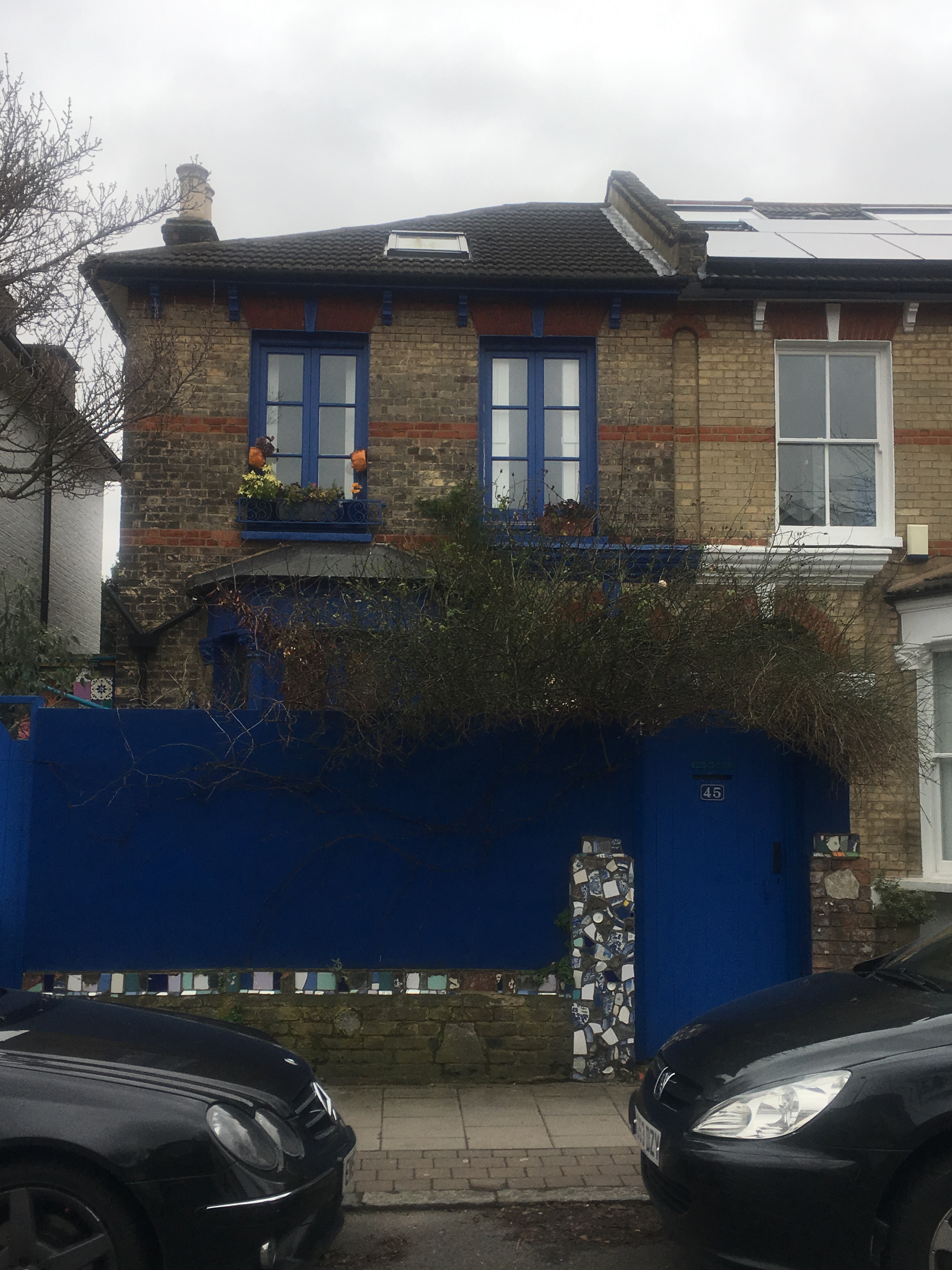 House of Dreams, 42 Melbourne Grove, East Dulwich, 2018